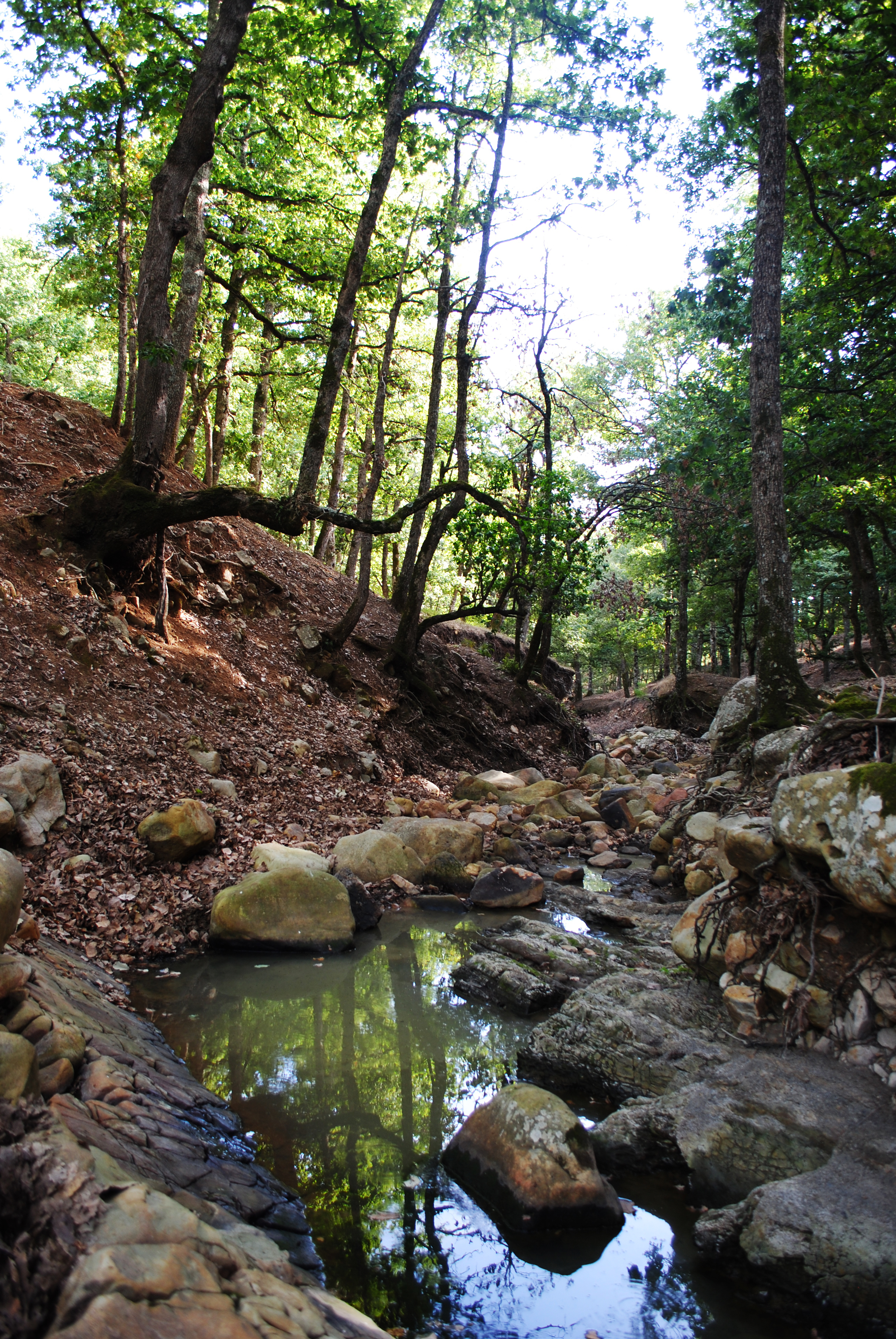 Le parc national d'El Feija (المحمية الوطنية بالفايجة)